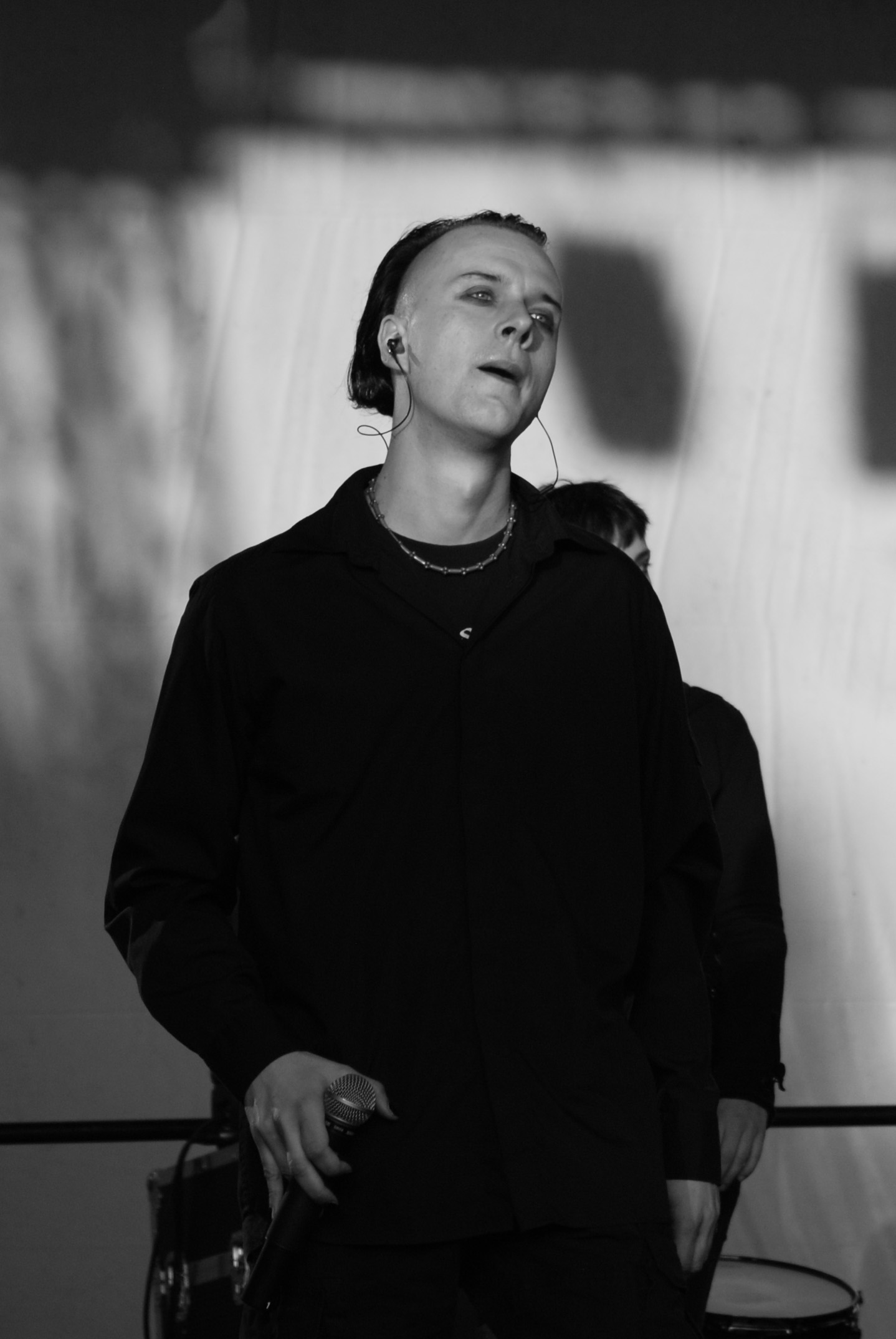 This photo was made in cooperation with CASTLE PARTY PRODUCTIONS in Bolków (webpage)